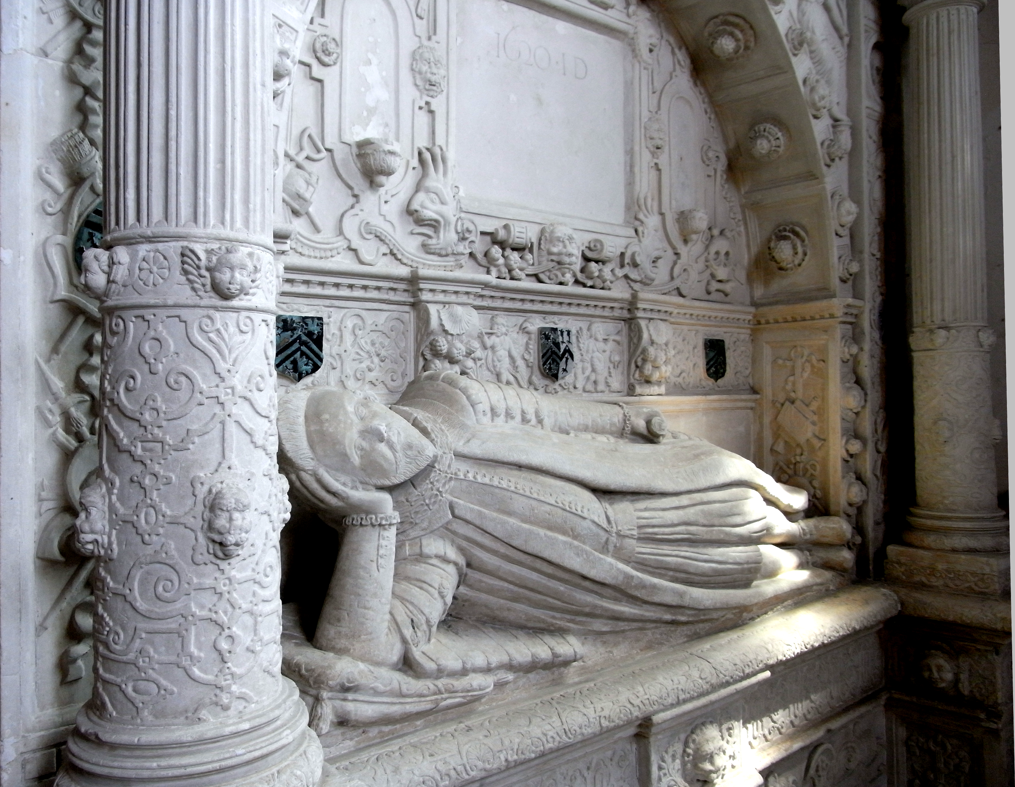 Effigy in Bovey Tracey Church, Devon, of Nicholas Eveleigh (d.1618) of Parke in the parish of Bovey Tracey. Showing effusive strapwork decoration, with relief-sculpted antique trophies of arms, heraldry of Eveleigh and Bray, and the Inscription above "1620 ID"